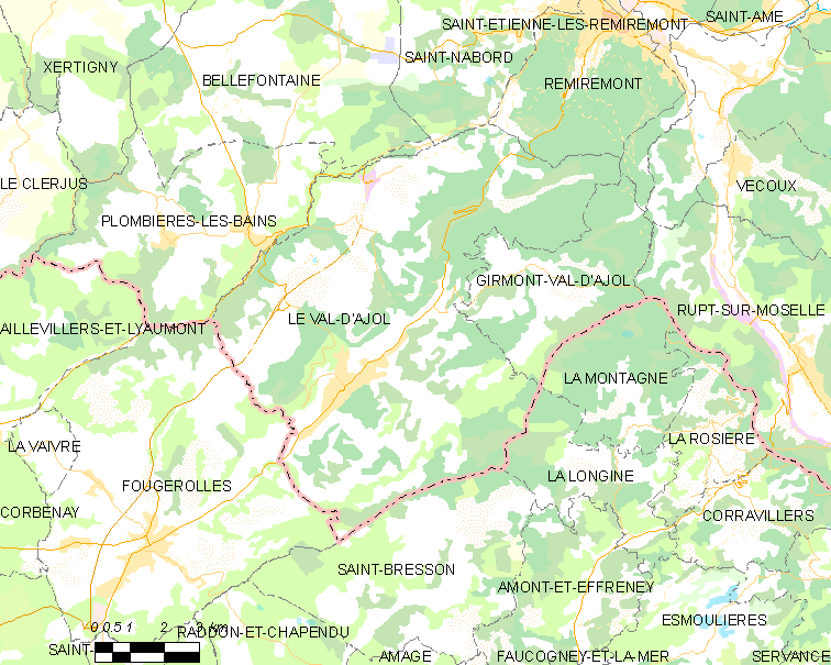 Map of French municipality Le Val-d'Ajol